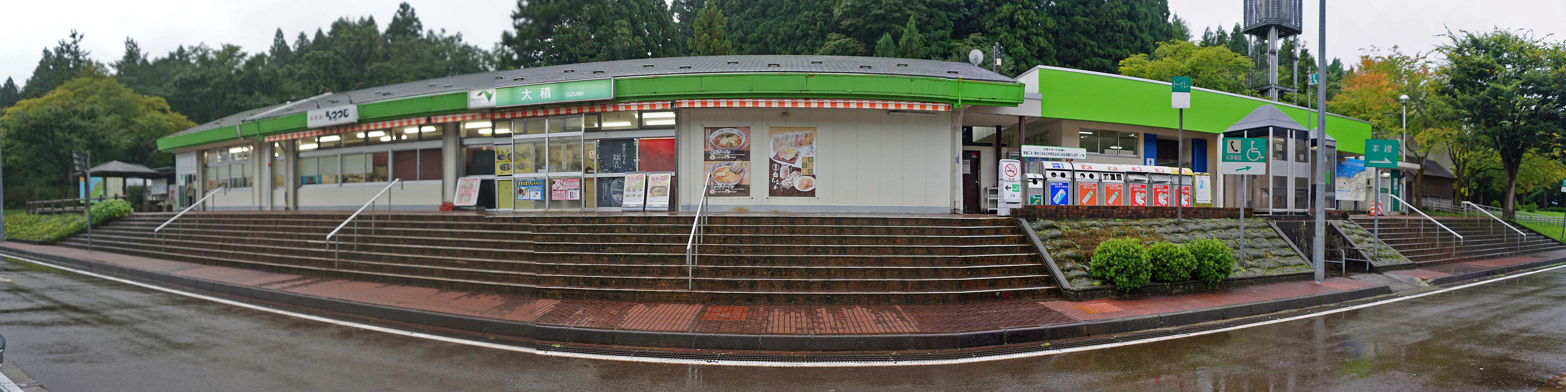 Ōzumi Parking Area on the Hokuriku Expressway in Nagaoka, Niigata Prefecture, Japan